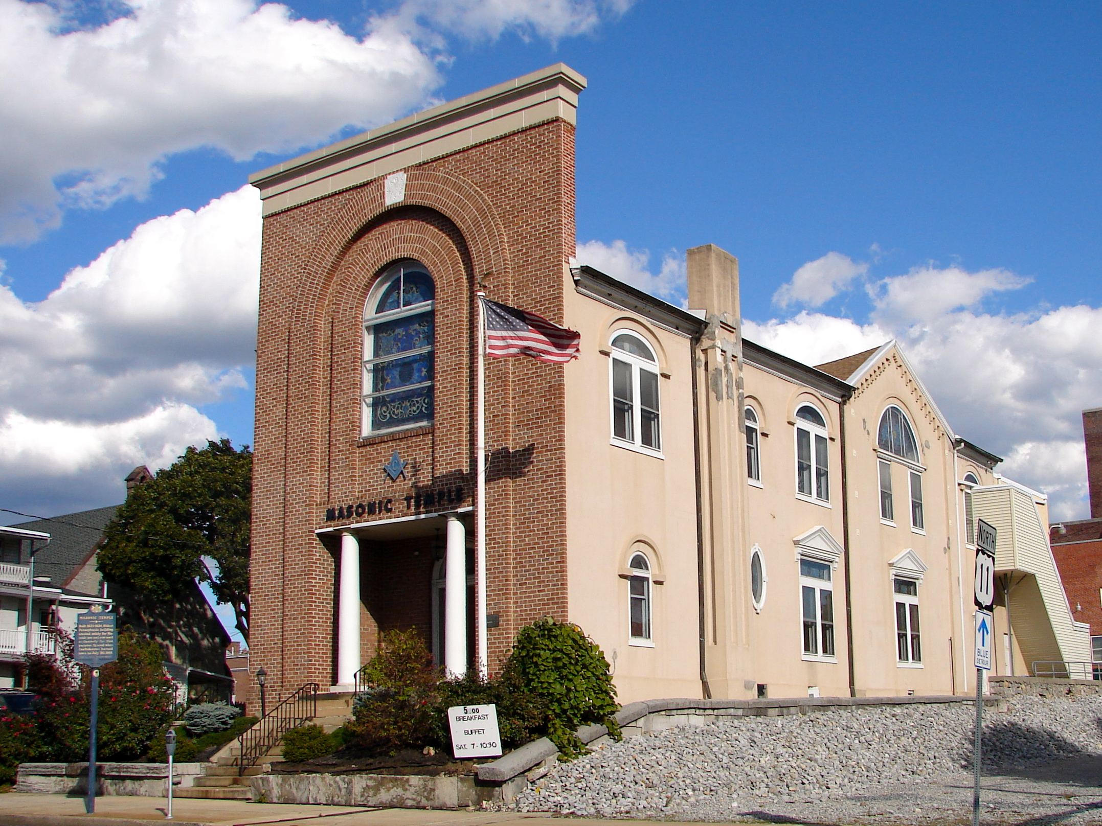 Masonic Temple (Chambersburg, PA) on the NRHP since June 18, 1976. At 74 South 2nd Street, Chambersburg, Pennsylvania. One of the oldest Masonic buildings west of the Sesquhanna River. Spared by a Confederate officer Mason during the burning of Chambersburg during the US Civil War. PHMC (state) historical marker in front.